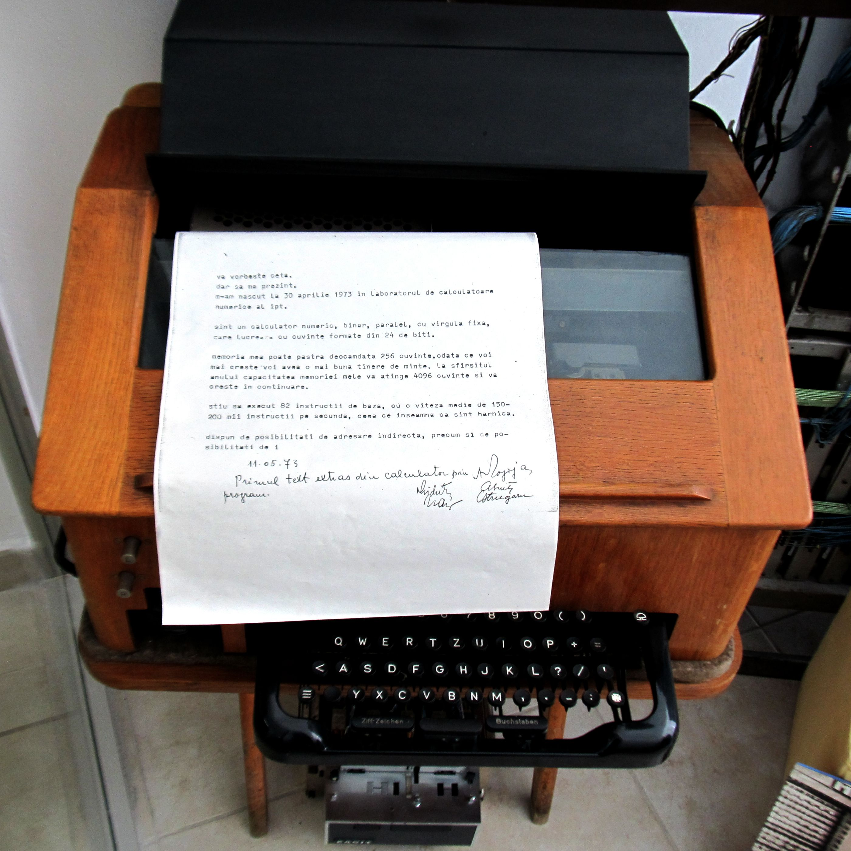 Console of CETA, fist output.